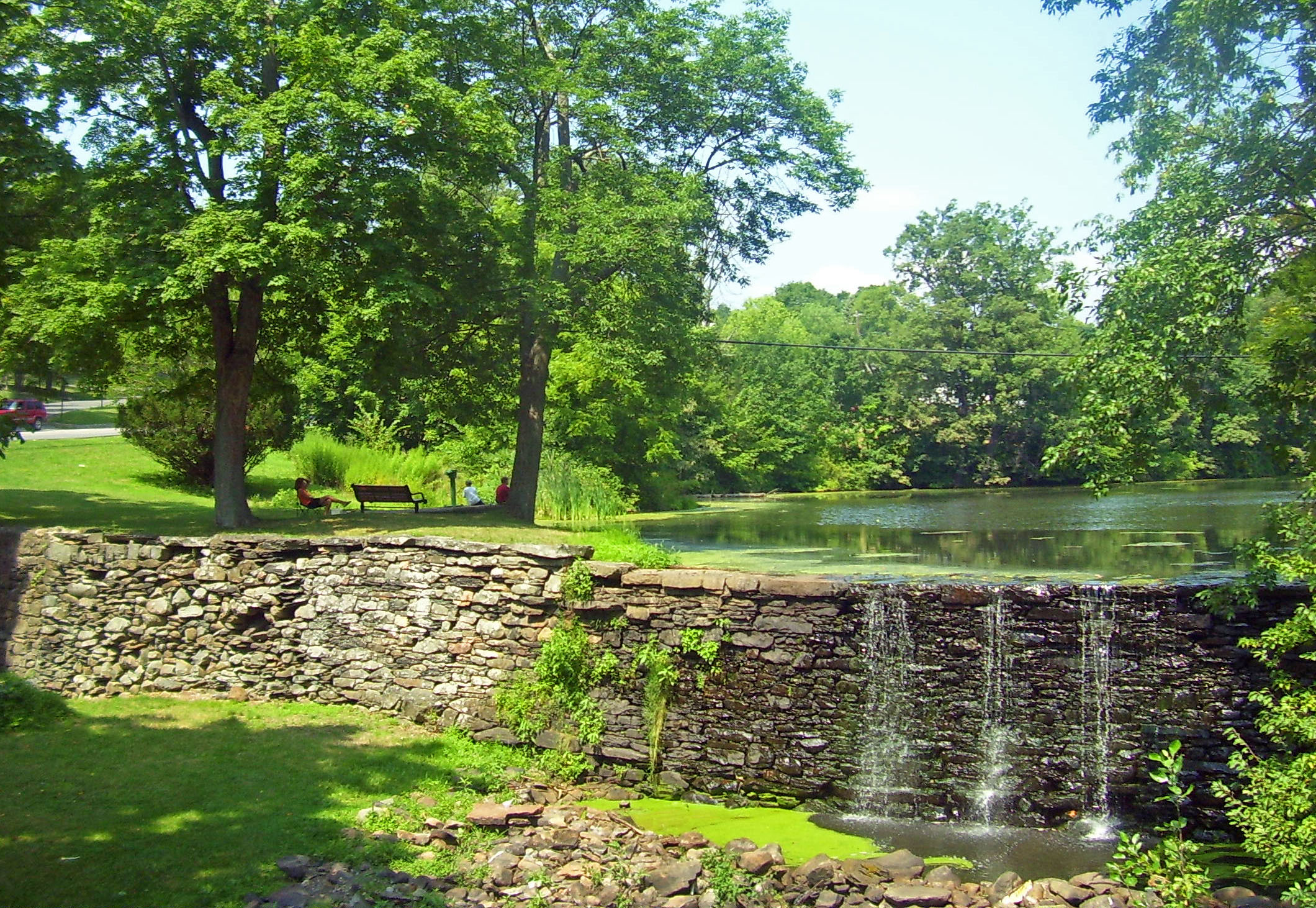 Dam and mill pond from Smith's Mill, center of the historic district in Monroe, NY, USA